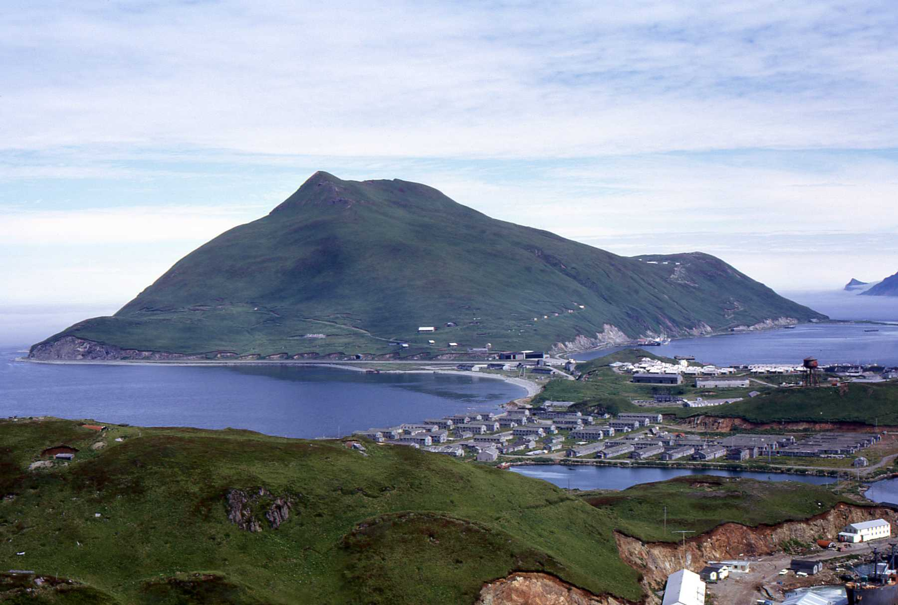 United States of America, Alaska, Amaknak Island and the sight of what remains in 1972 before the cleanup of the late '80 of Dutch Harbor Naval Operating Base and Fort Mears, U.S. Army , in the background is Mount Ballyhoo.